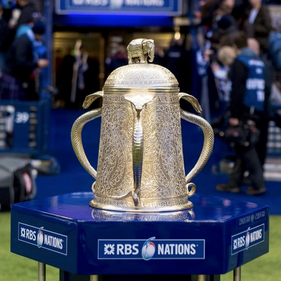 Trophy awarded to the winner of the annual Six Nations Championship match between England and Scotland.